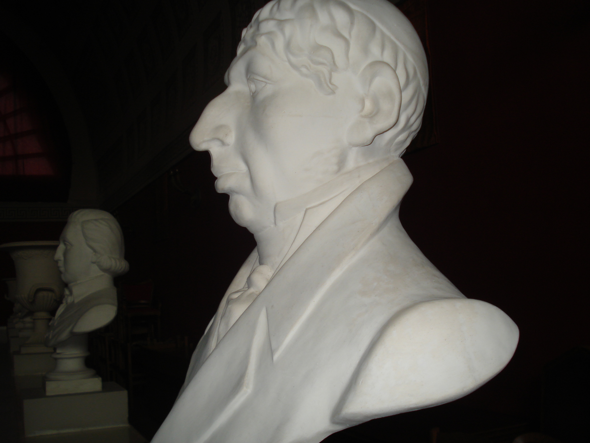 The bust of Jan Rustem painter in the Aula of Vilnius university